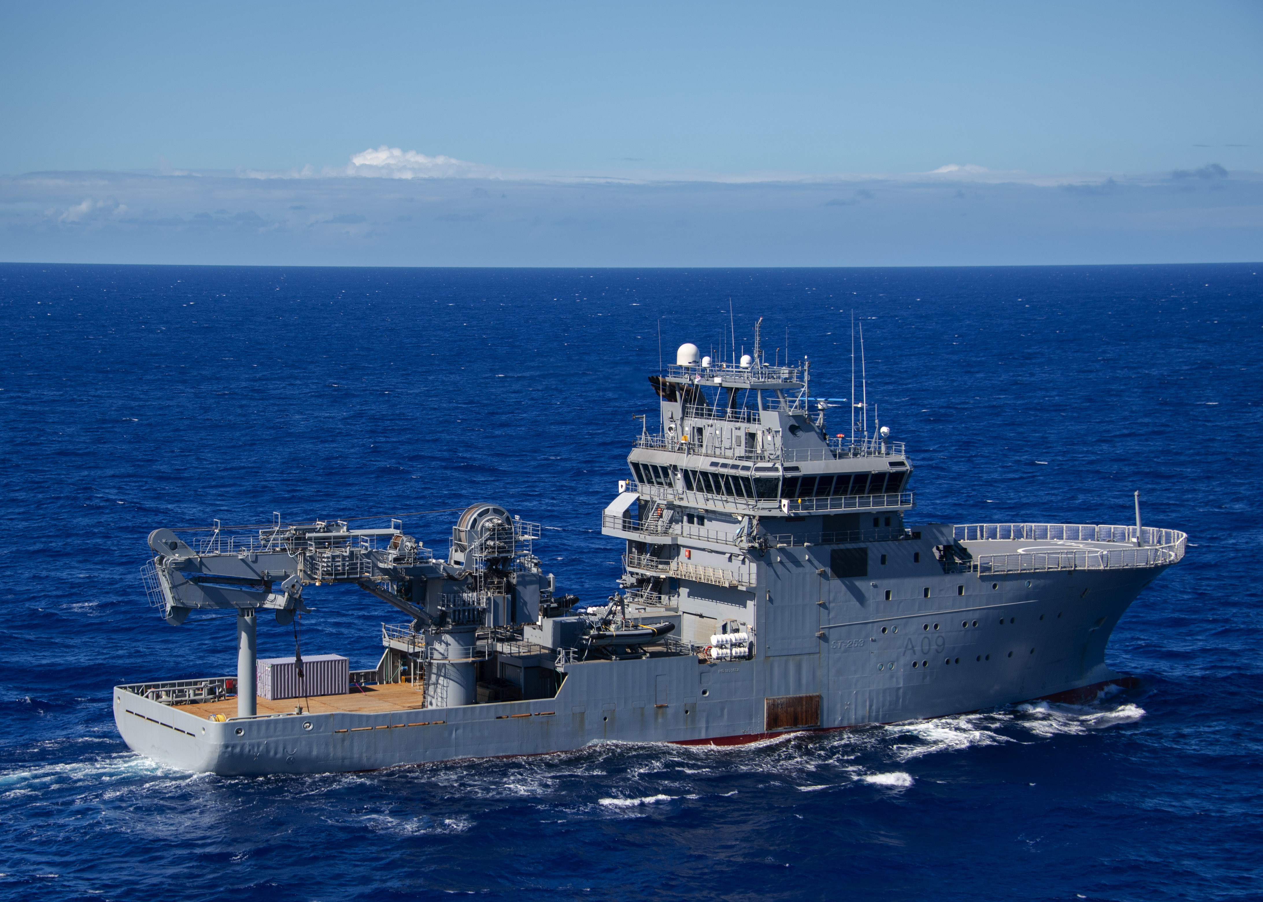 The Royal New Zealand Navy ship HMNZS Manawanui (A09) underway in the Pacific Ocean during a division tactics exercise during "Exercise Rim of the Pacific (RIMPAC) 2020" on 18 August 2020. Ten nations, 22 ships, 1 submarine, and more than 5,300 personnel were participating in RIMPAC 2020 from 17 to 31 August 2020 at sea around the Hawaiian Islands. RIMPAC 2020 was the 27th exercise in the series that began in 1971.